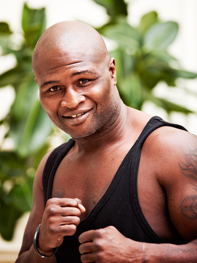 James Toney picture shot in Agalarov Estate of Moscow